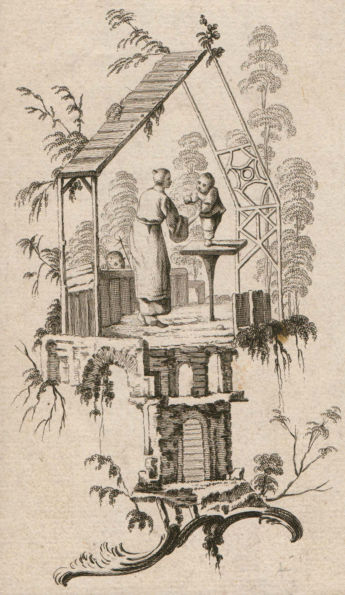 a decorative plate, french rococo art